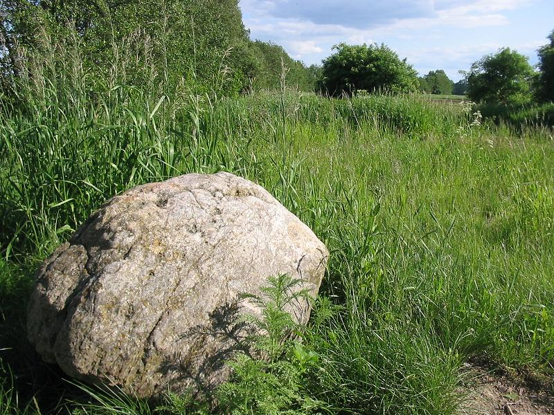 Erratic block in the Belziger Landschaftswiesen in the North of Trebitz. The village Trebitz is an incorporated part of the town Brück in Brandenburg, Germany.